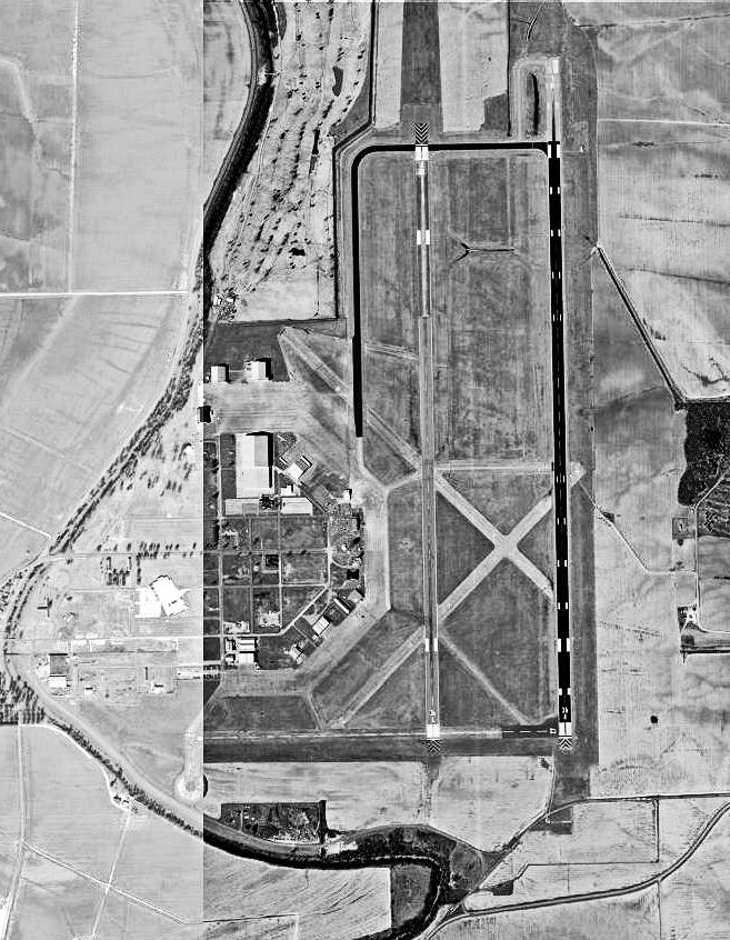 Aerial image of Mid Delta Regional Airport (FAA: GLH) in Greenville, Mississippi, United States.